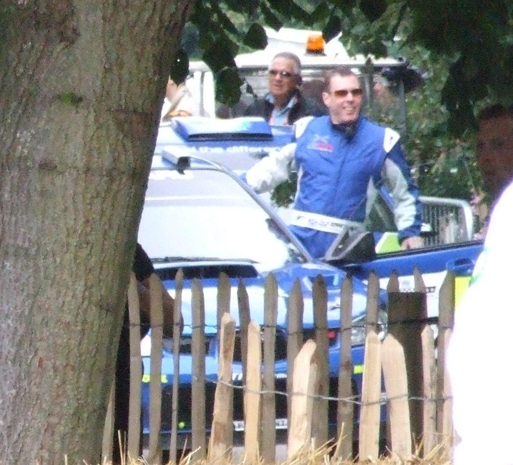 Colin McRae about to ride his WRC Impreza out onto the track for the Hillclimb at the Festival of Speed 2007